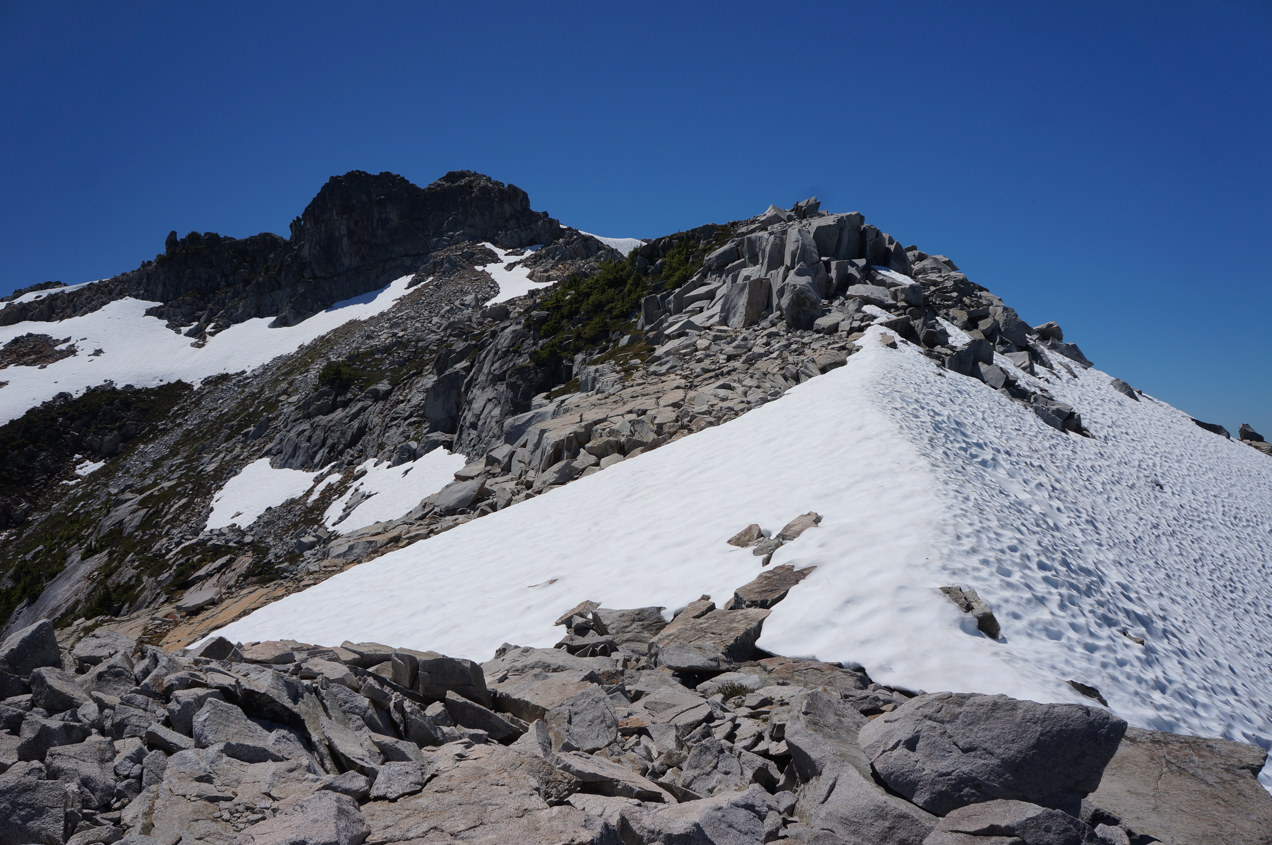 The short airy section to the Big Snow Mountain summit